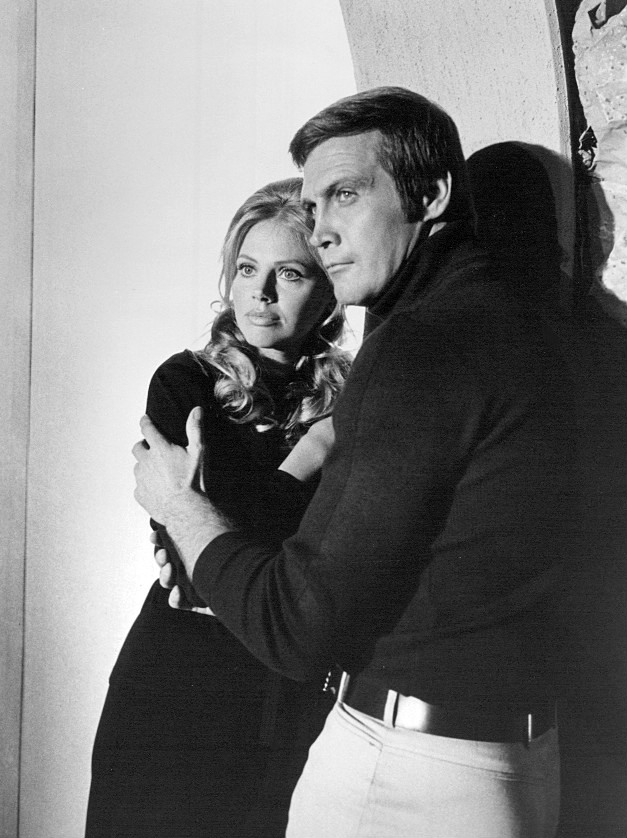 Photo of Britt Ekland and Lee Majors from one of the made for television movies that began The Six Million Dollar Man television series.